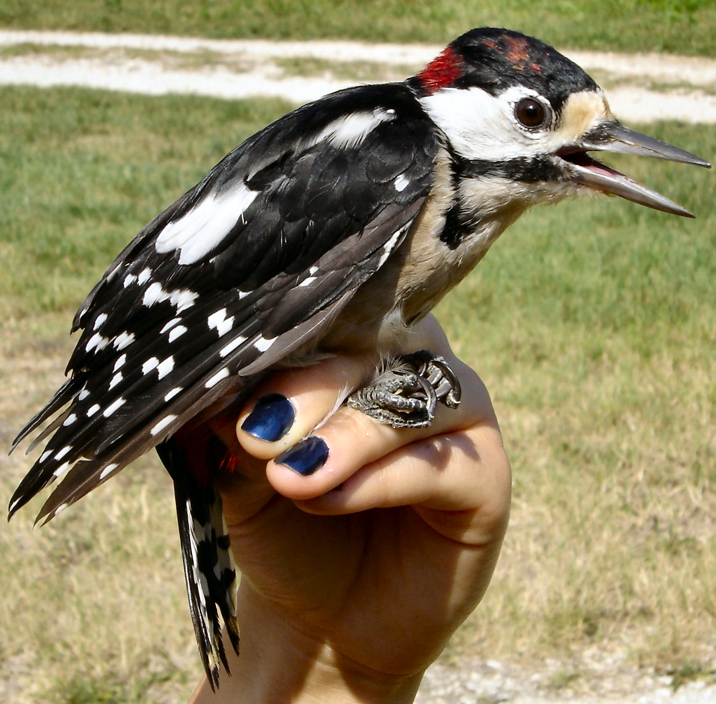 A young male great spotted woodpecker (Dendrocopos major).